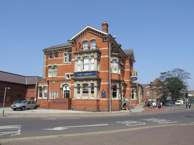 The Lumley, Skegness. The hotel is situated very close to the bus station and opposite the railway station.1878. Designer by the architect James Whitton on Lincoln, for the Earl of Scarborough